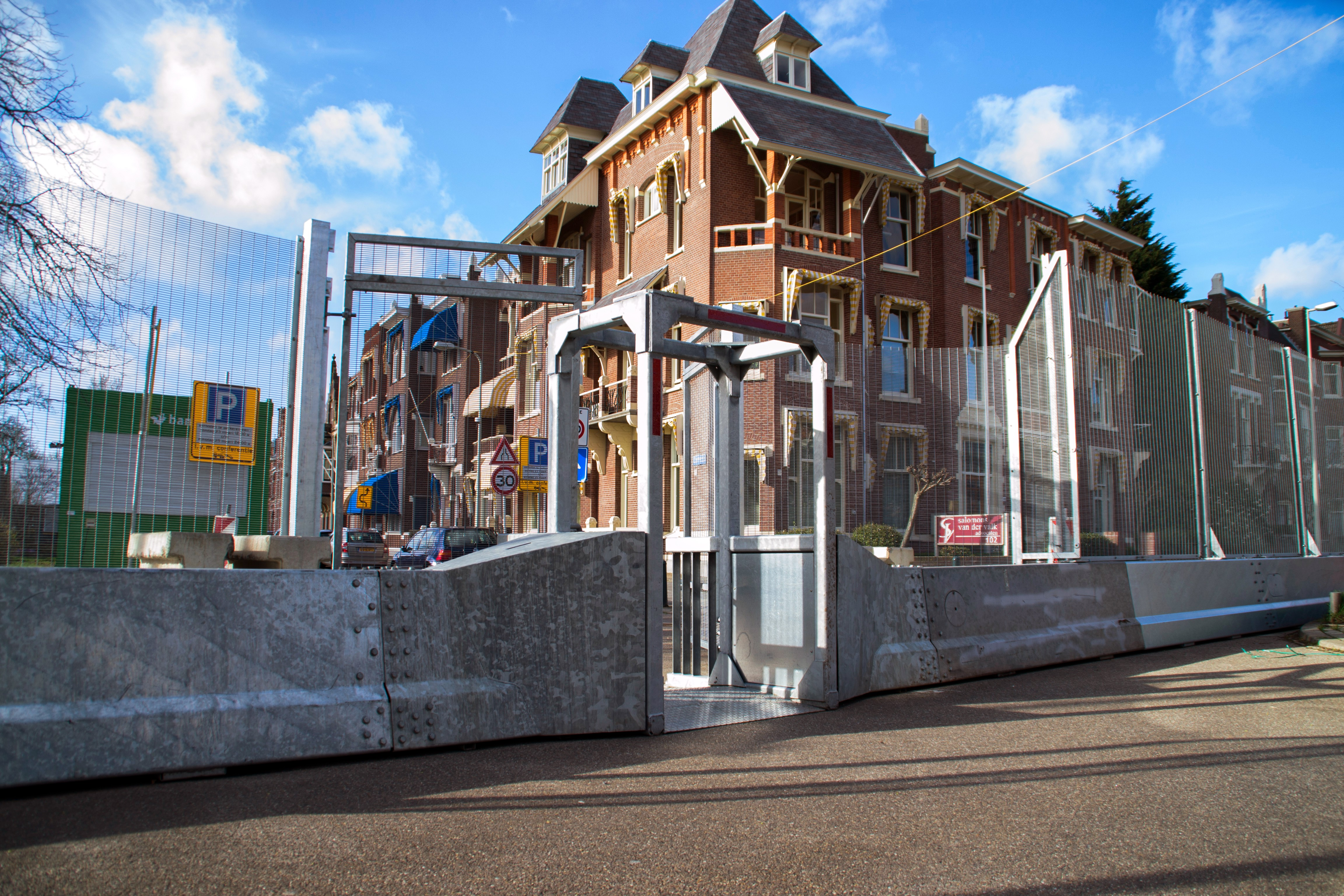 A security fence in The Hague during the 2014 Nuclear Security Summit.